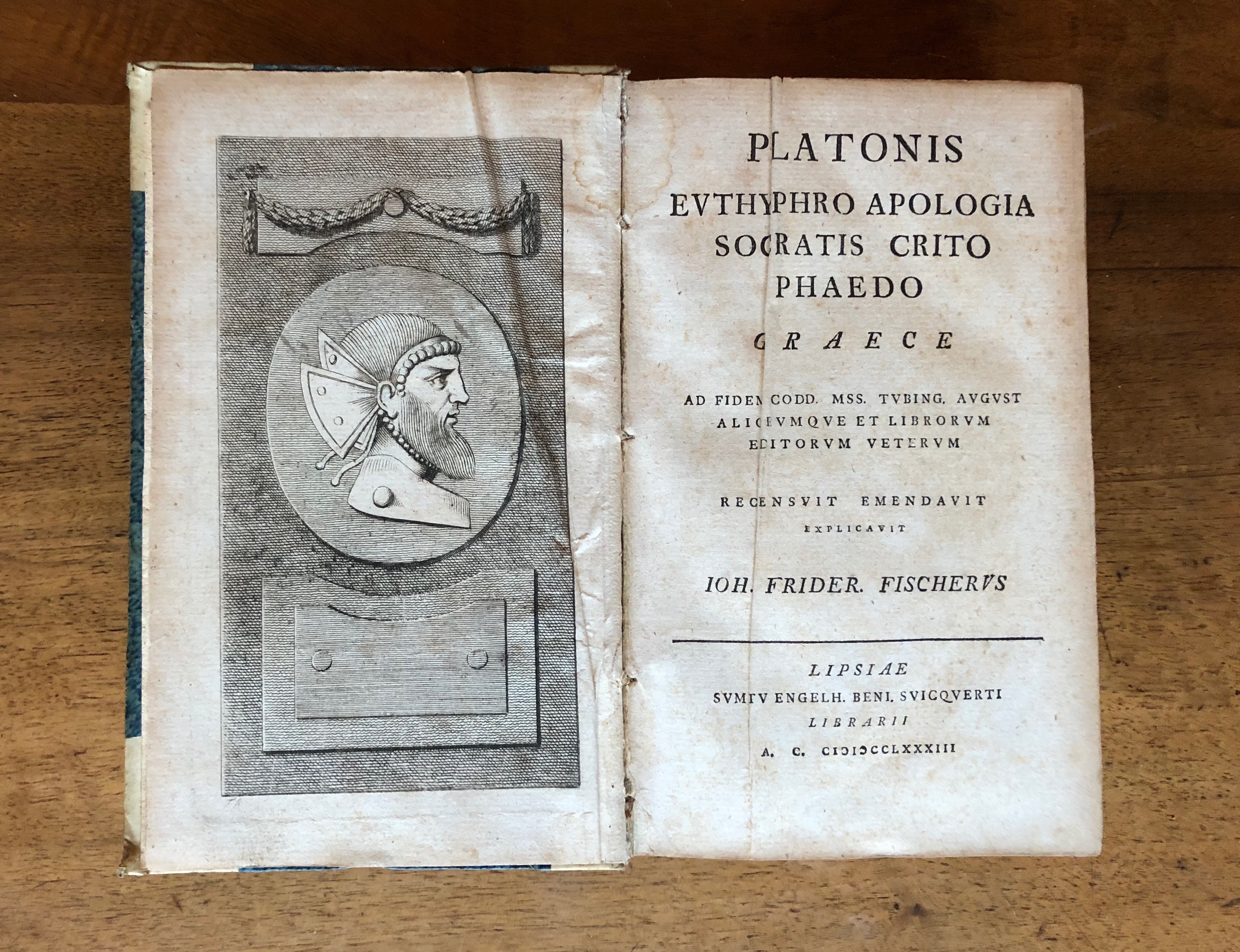 Johann Friedrich Fischer: „Platonis Eutyphro Apologia Socratis Crito Phaedo“ Leipzig 1783